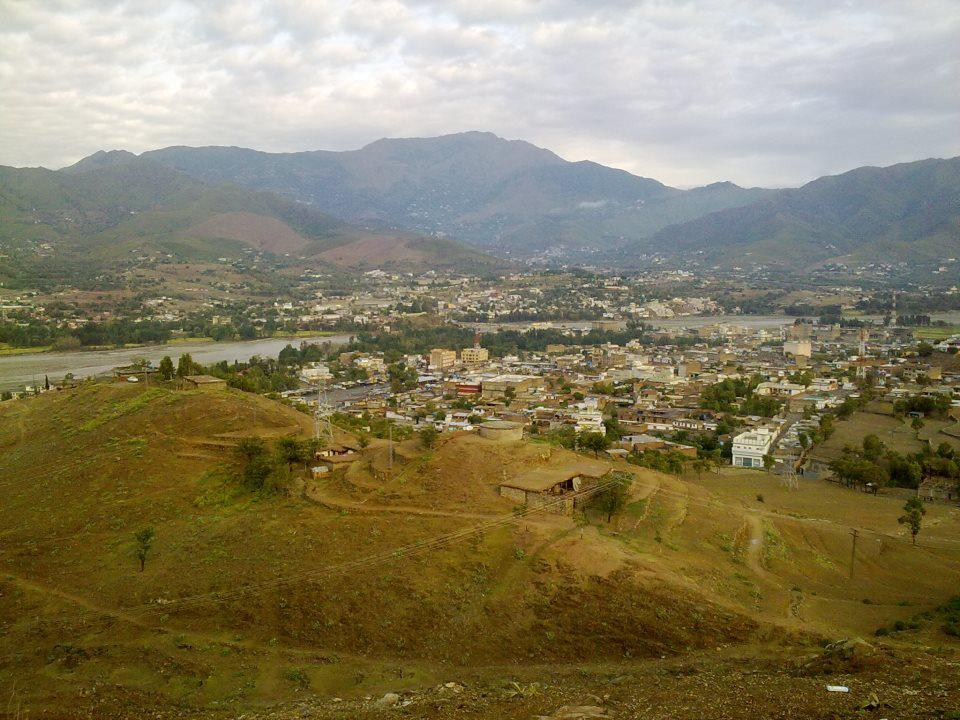 Overview of Timergara from Mandal abad